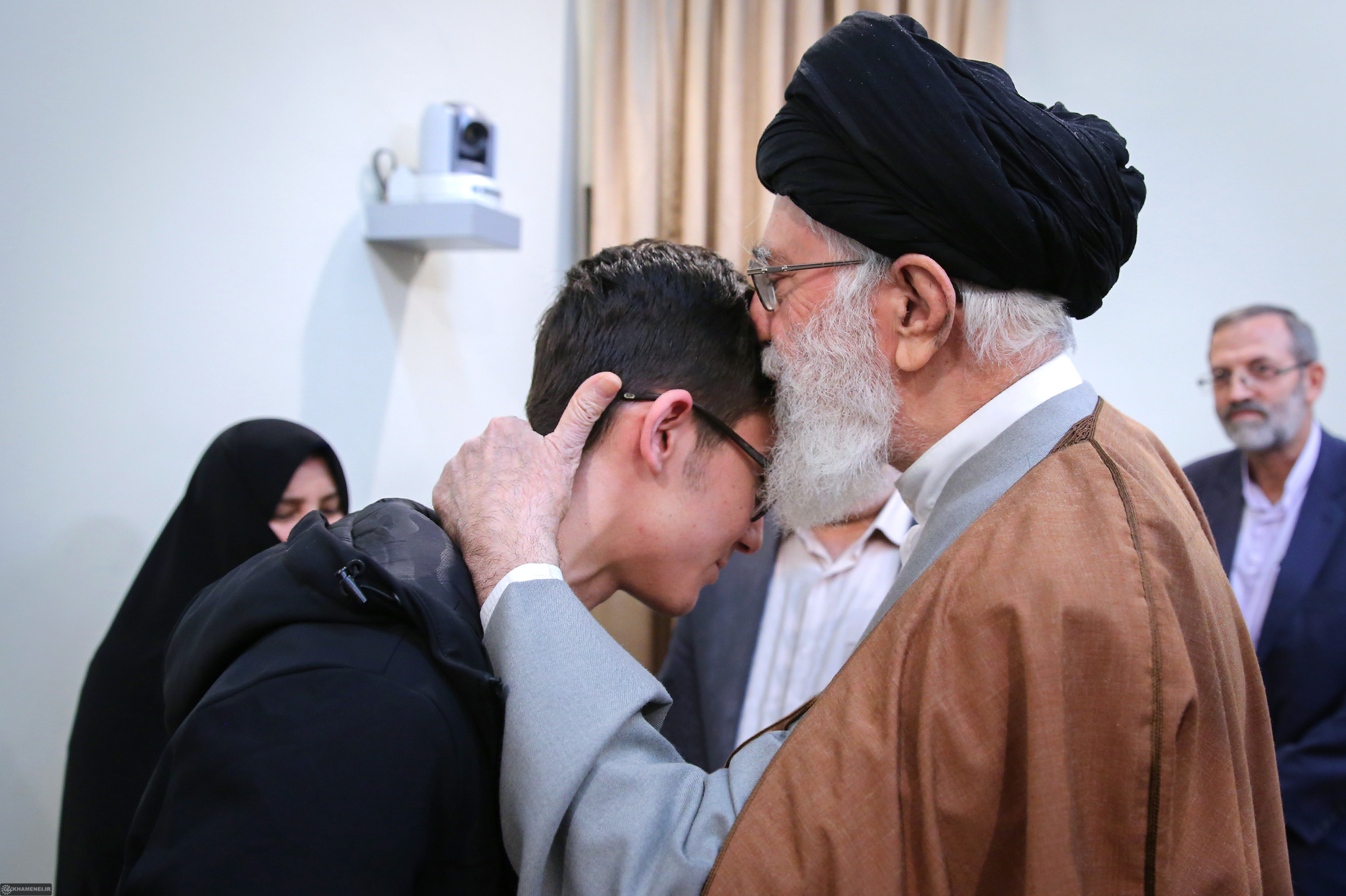 Ayatollah Khamenei meets with Aryan Gholami